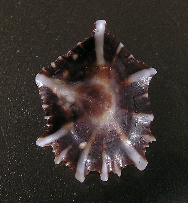 Siphonaria sirius Pilsbry, 1894, a false limpet from the family Siphonariidae; Japan